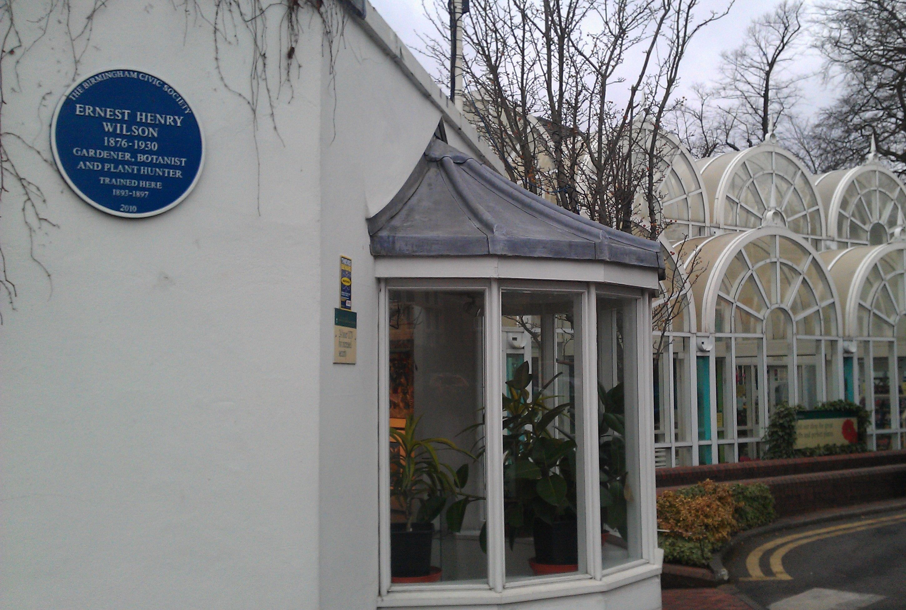 Blue plaque honouring Ernest Henry Wilson, erected in May 2010 at Birmingham Botanical Gardens. See File:Erenst H Wilson blue plaque.jpg for closeup.